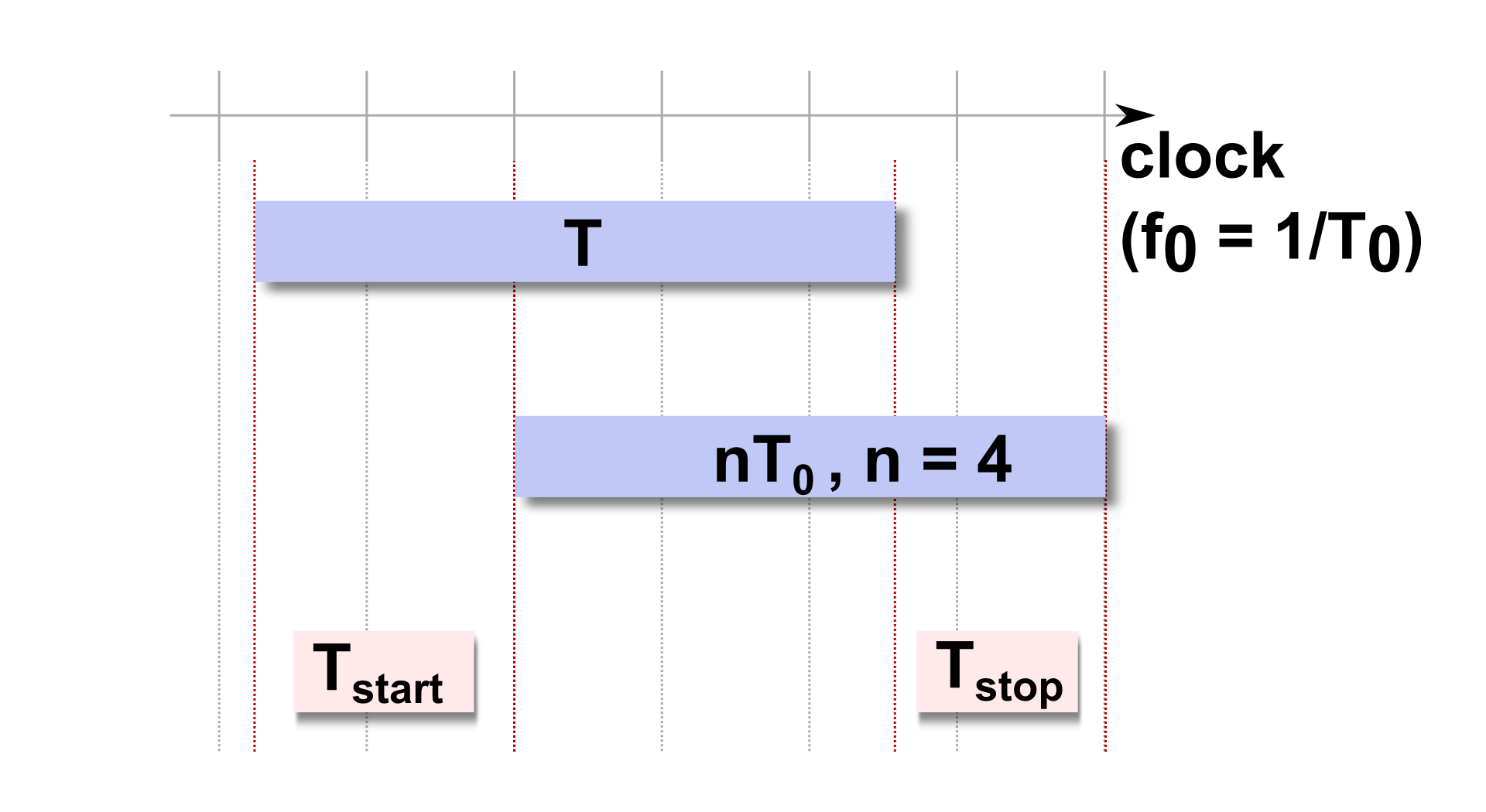 sketch of the Nutt interpolation method used in TDCs